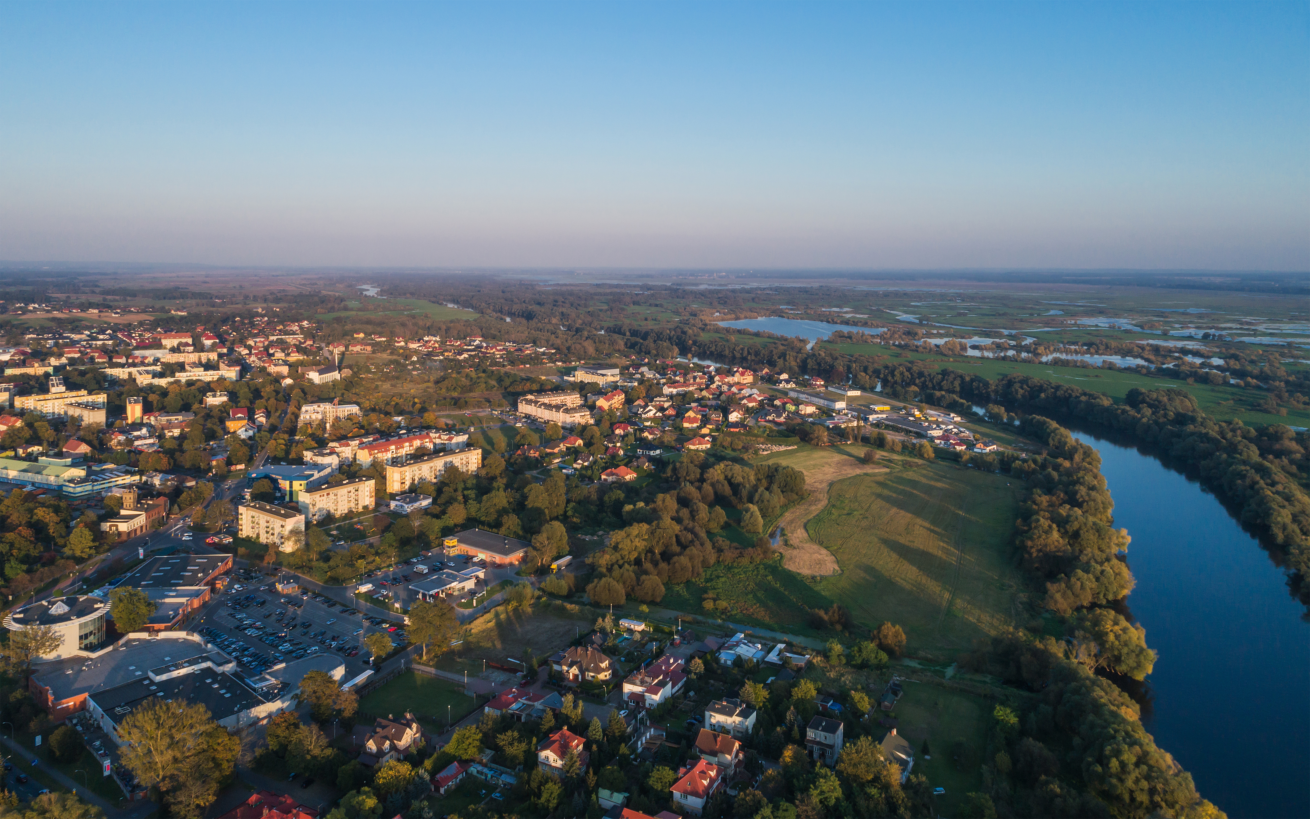 Aerial photo of Kostrzyn nad Odrą (Poland)